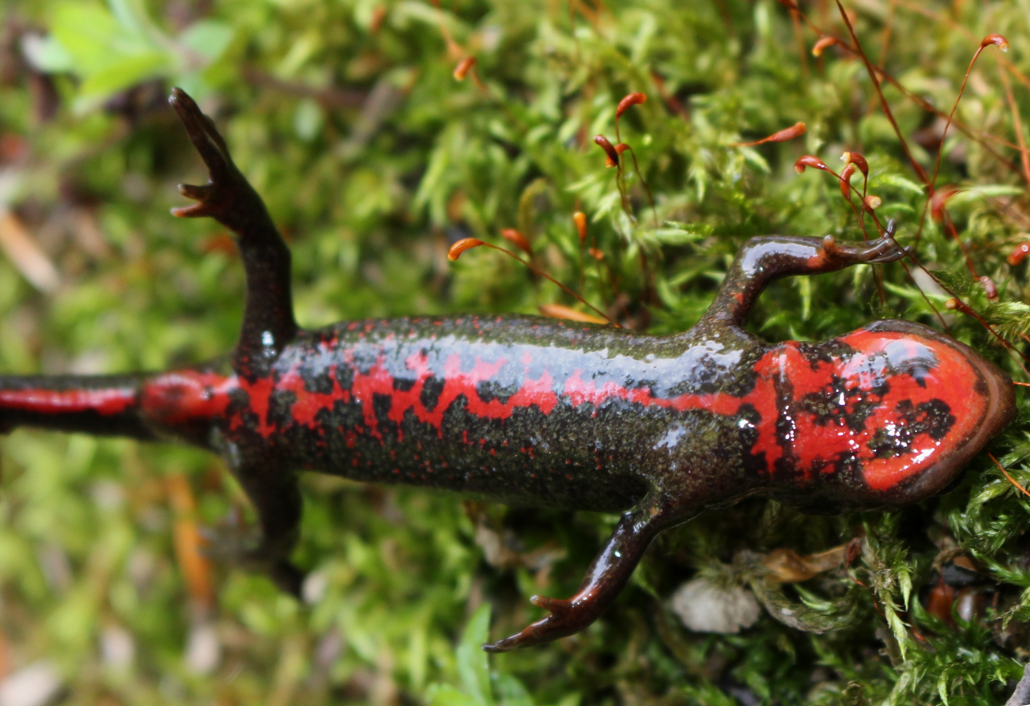 Cynops pyrrhogaster in Karikomi Pond, Ōno, Fukui prefecture, Japan.